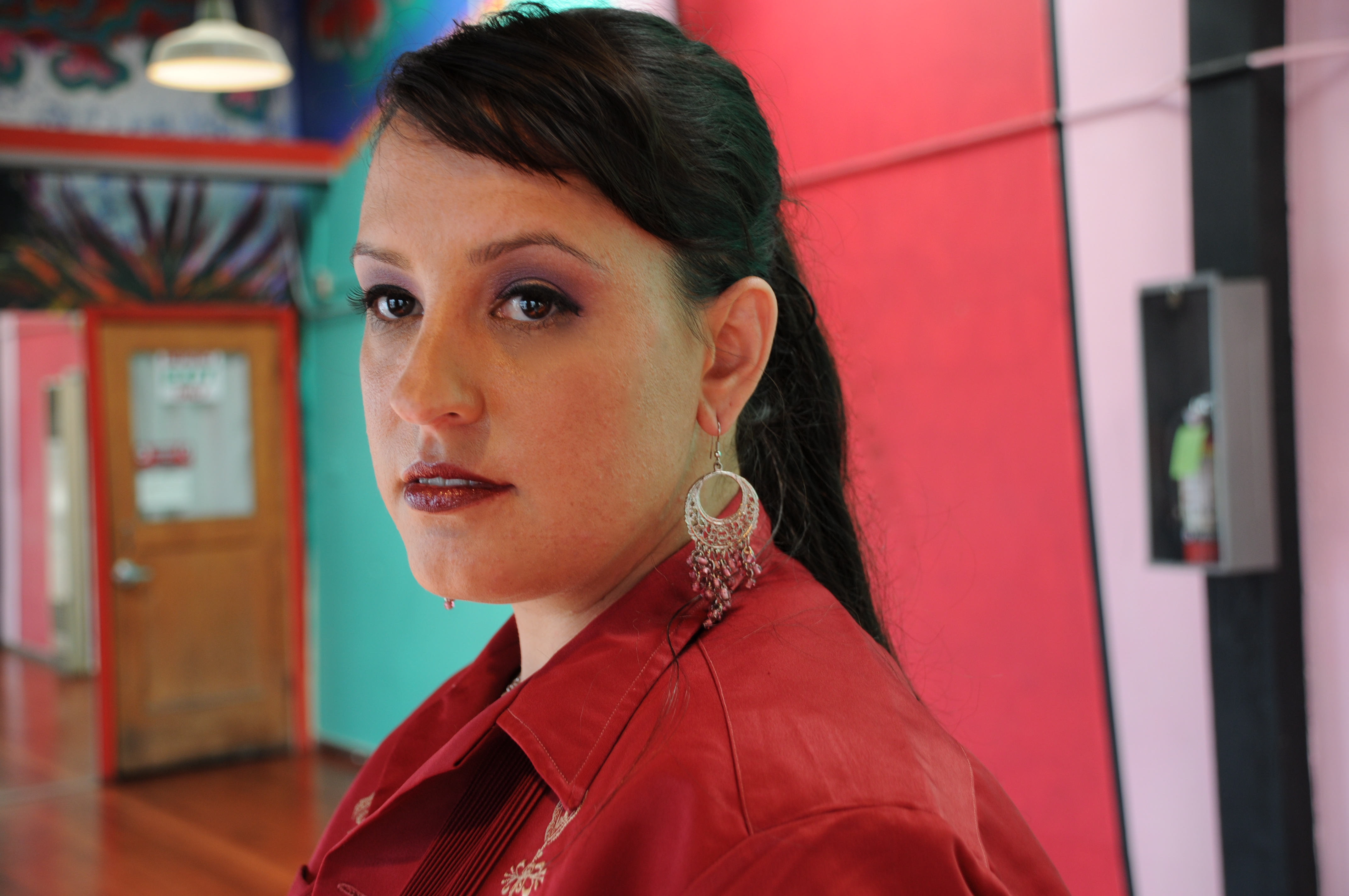 Author Photo by Rio Yañez